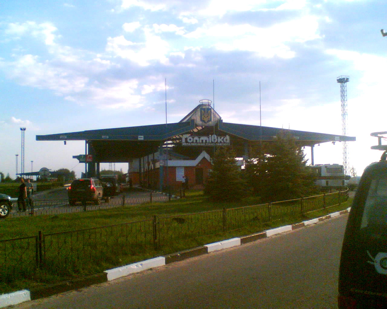 The Customs Goptivka on the Ukraine-Russia border